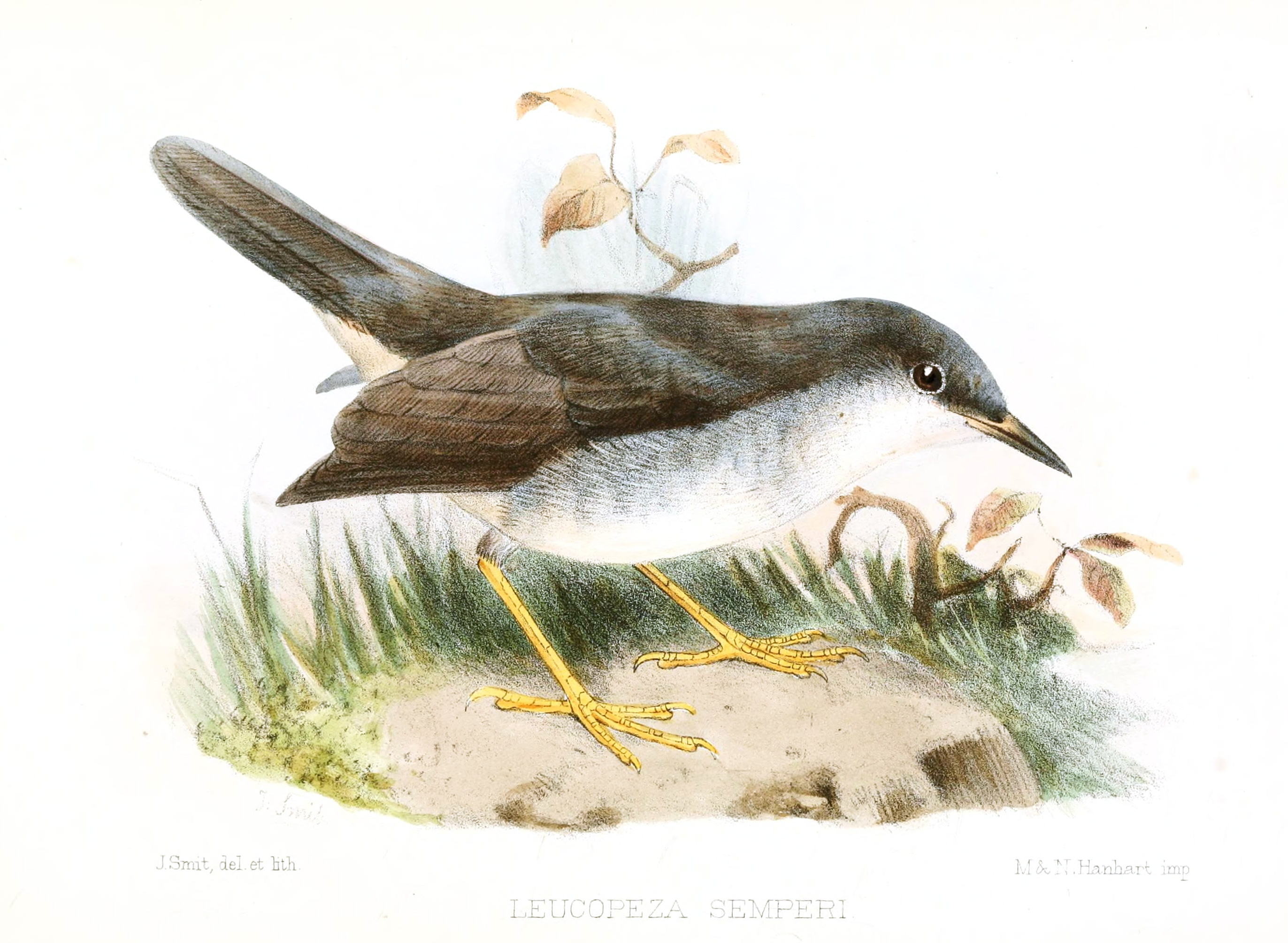 Plate II showing Semper's Warbler (Leucopeza semperi) by J. Smit. From Proceedings of the Zoological Society, 1876.